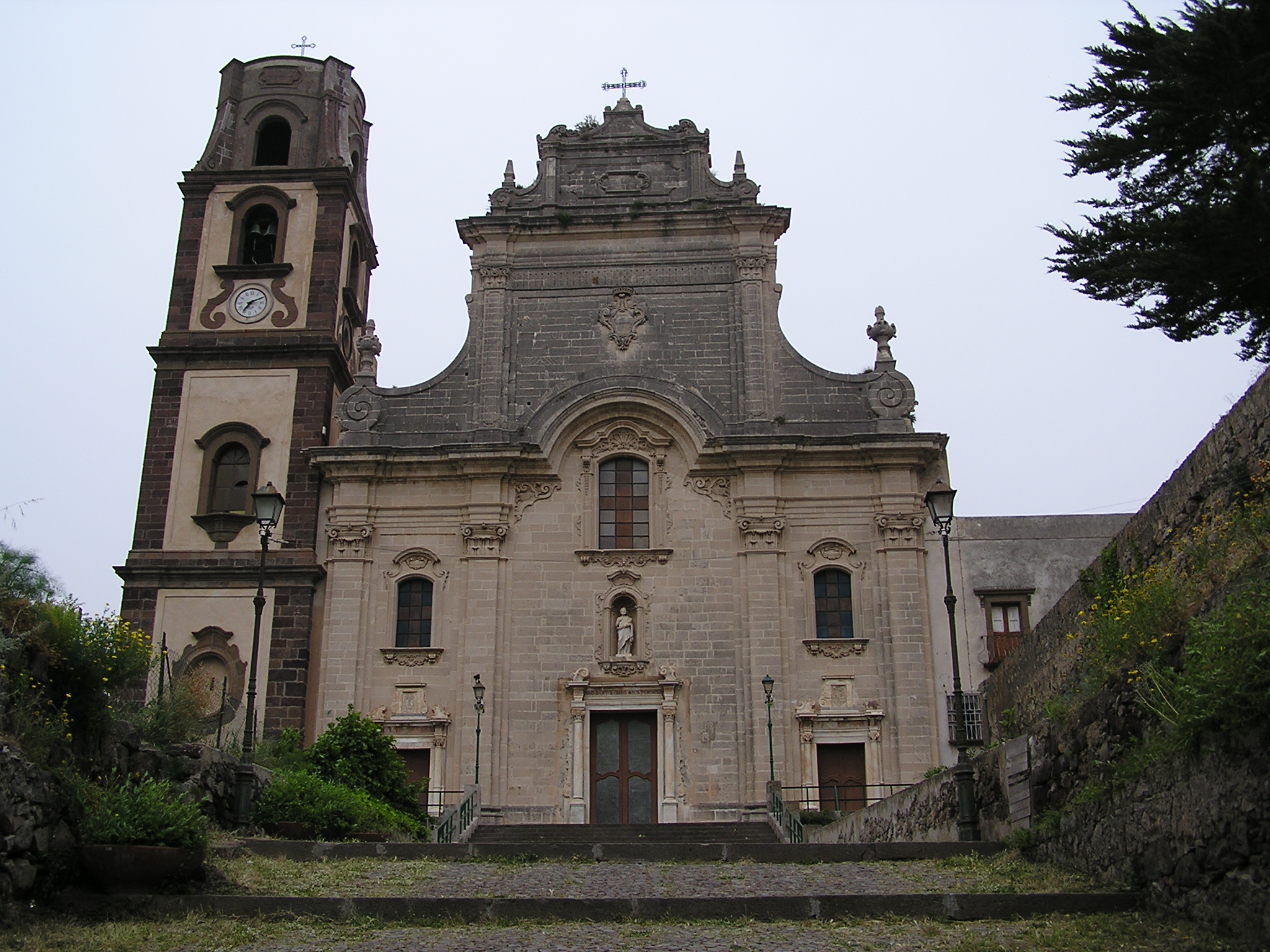 Lipari, cathedral 'San Bartolomeo' (protector of town and islands)